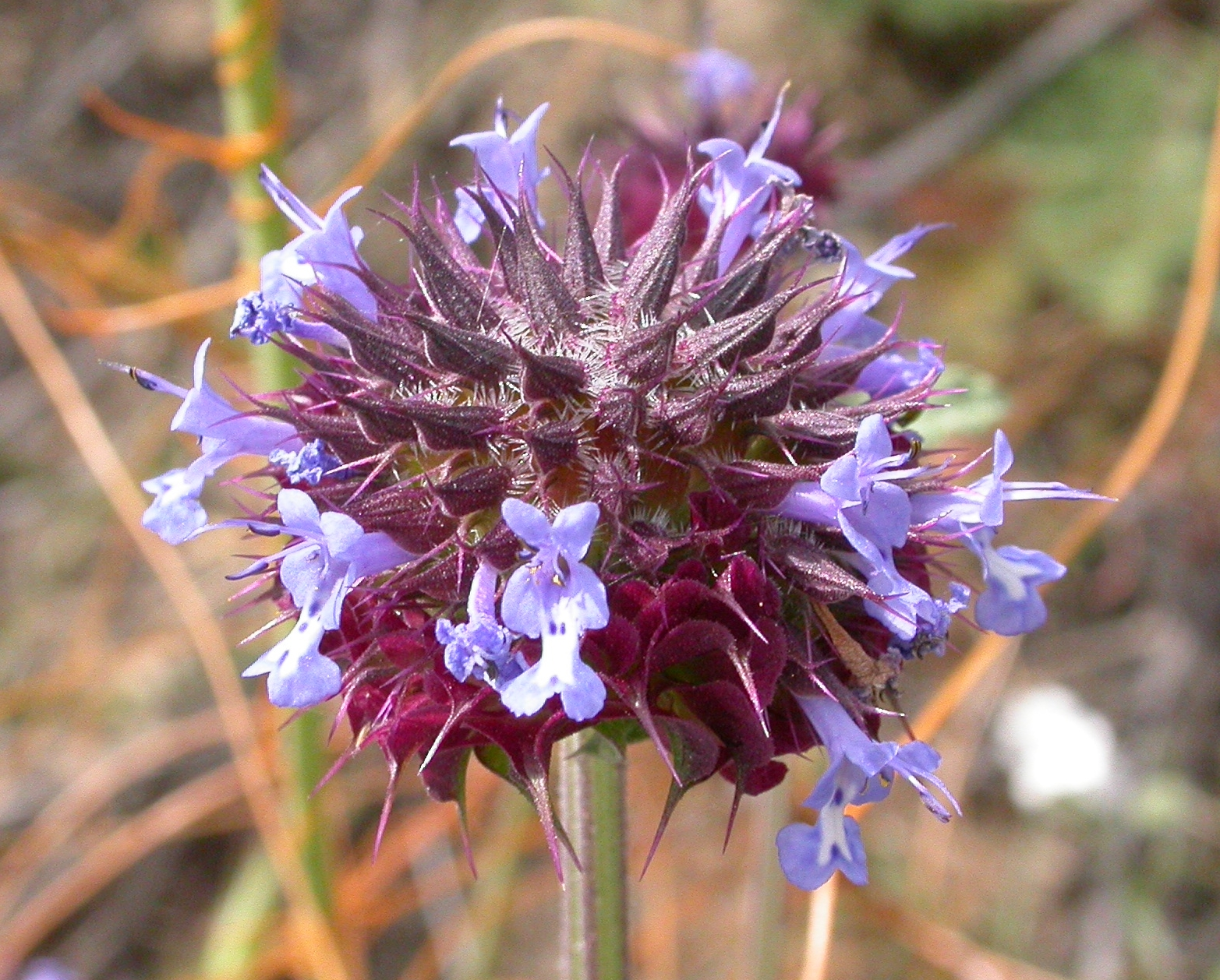 Salvia columbariae, growing in the foothills of the San Gabriel Mountains above Rancho Cucamonga, California. Photograph by Curtis Clark.